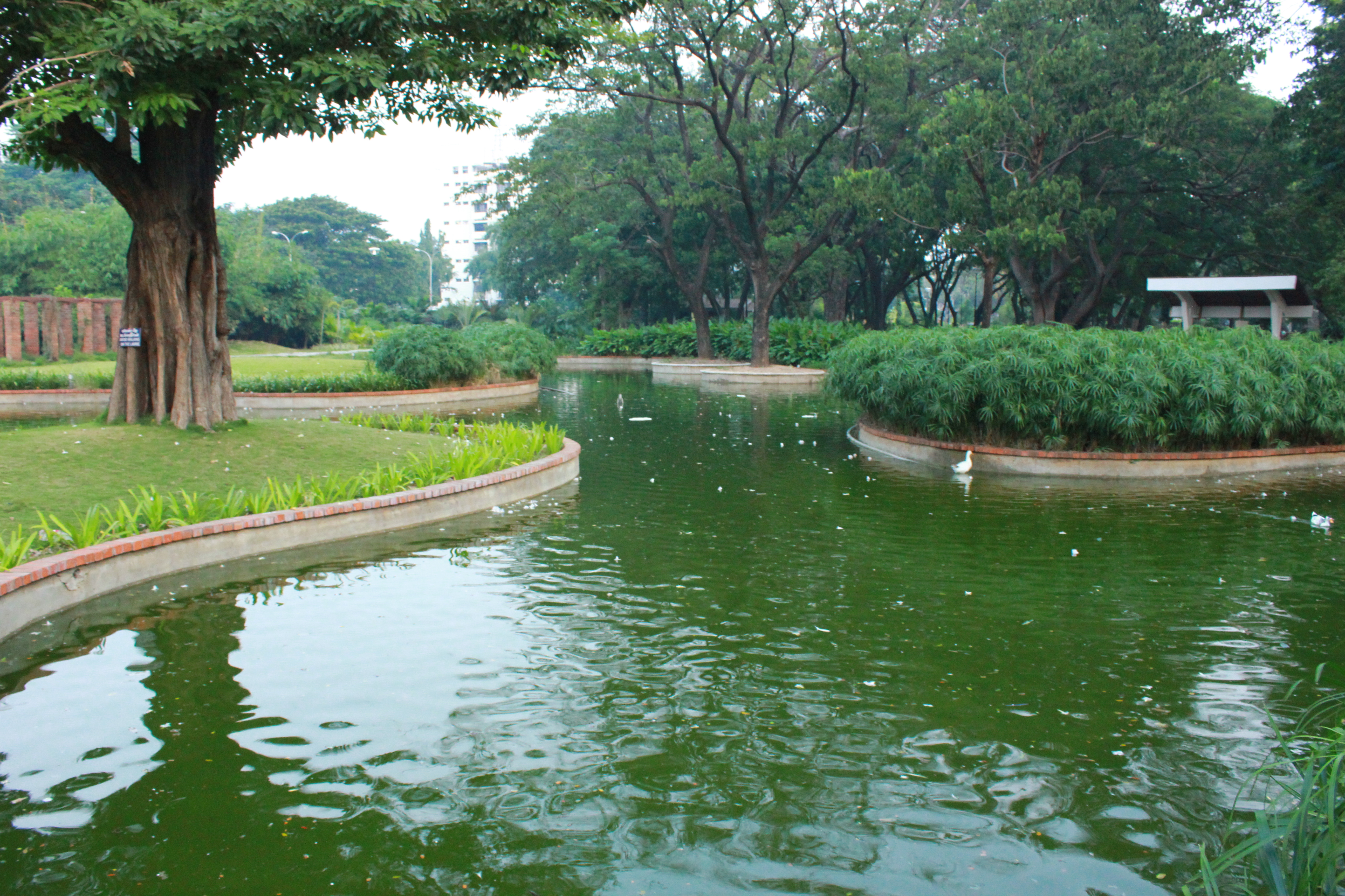 Picture of the pond at Semmozhi Poonga as photographed by Eashchand